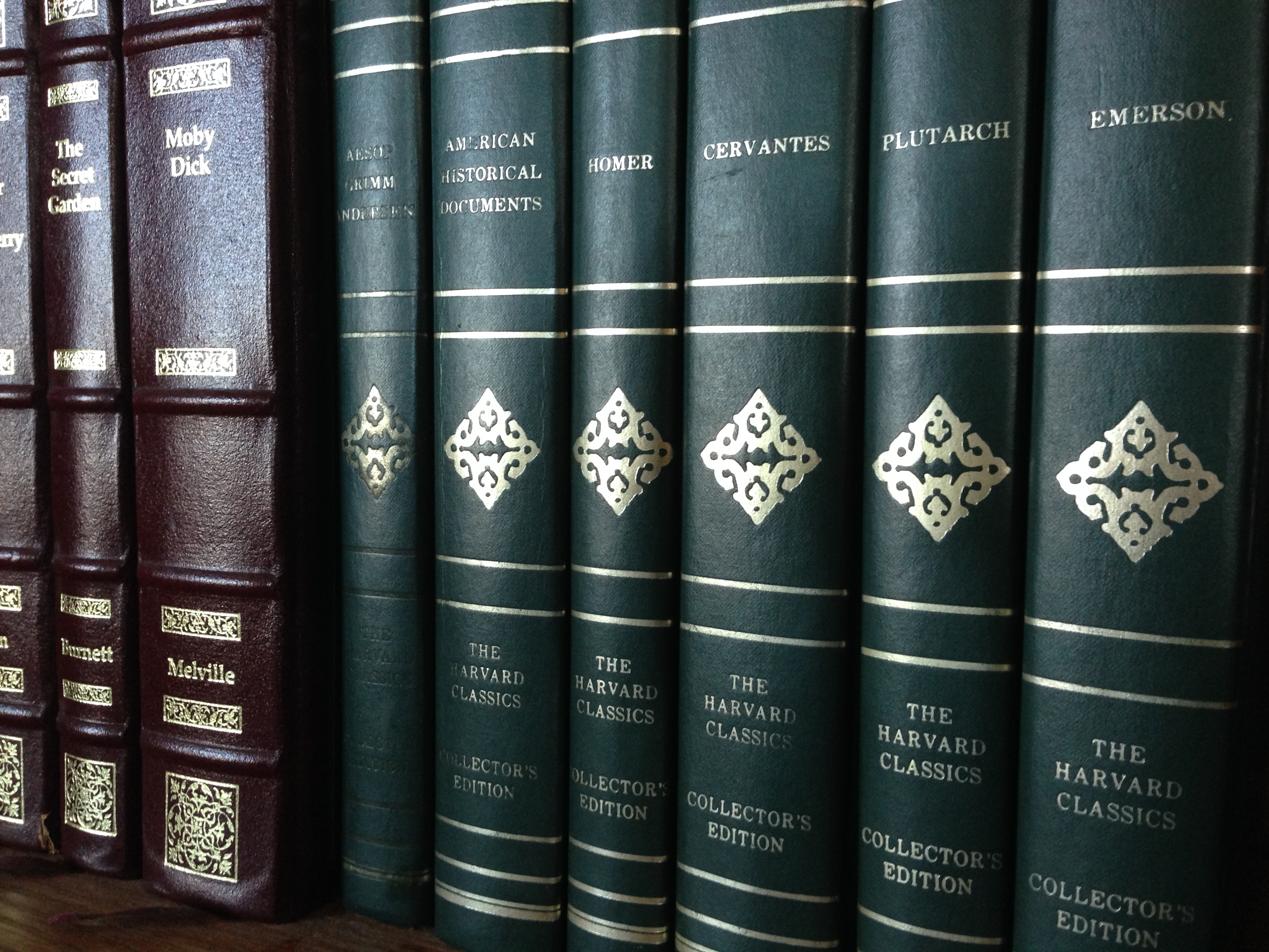 Several of the Harvard Classics series of books